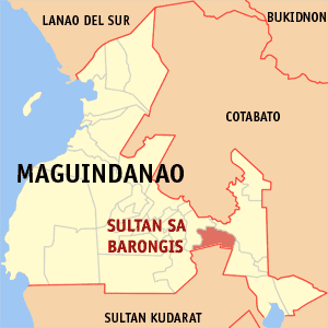 Map of the Maguindanao showing the location of Sultan sa Barongis